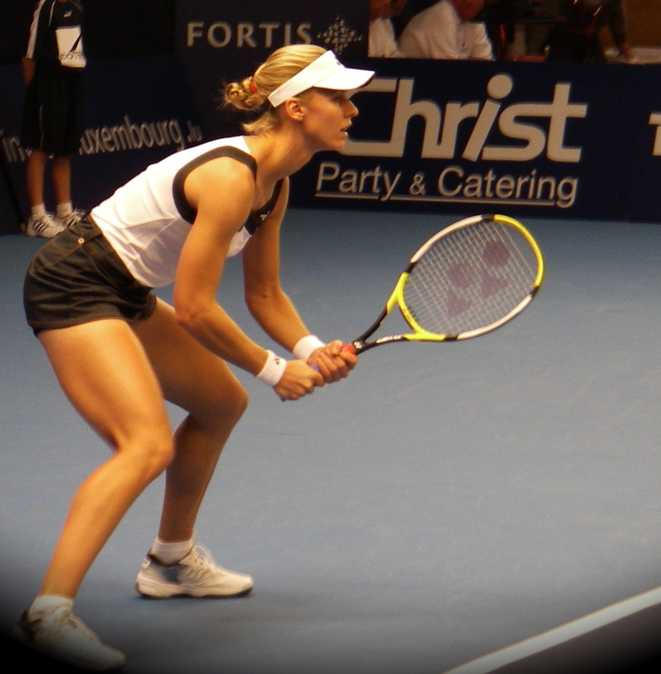 Elena Dementieva at 2008 Fortis Championships Luxembourg